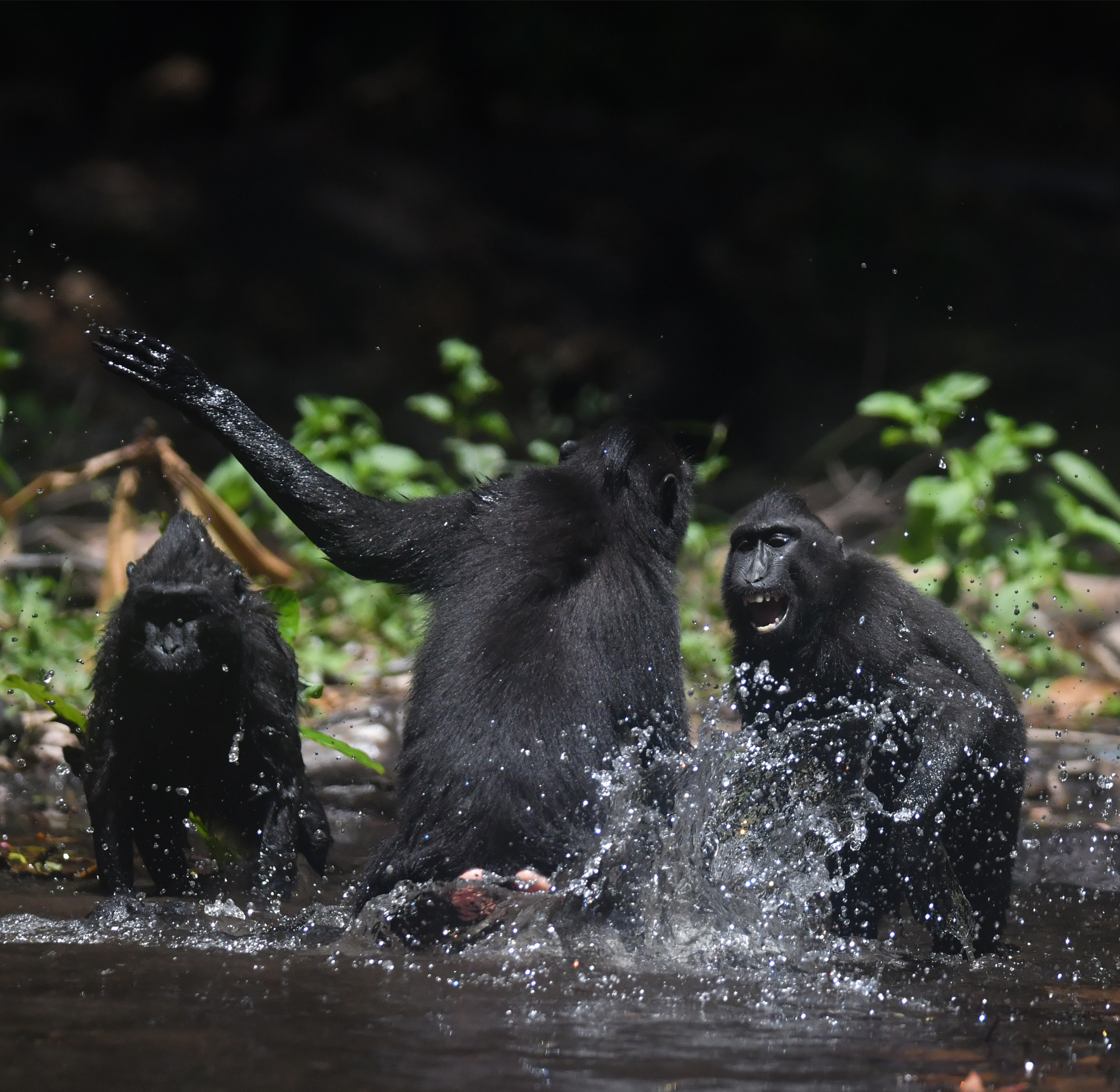 Macacanigra are one of the 7 endemic monkey species living in Sulawesi whose population is threatened with extinction. They live in groups, which have both an alpha male and alpha female.